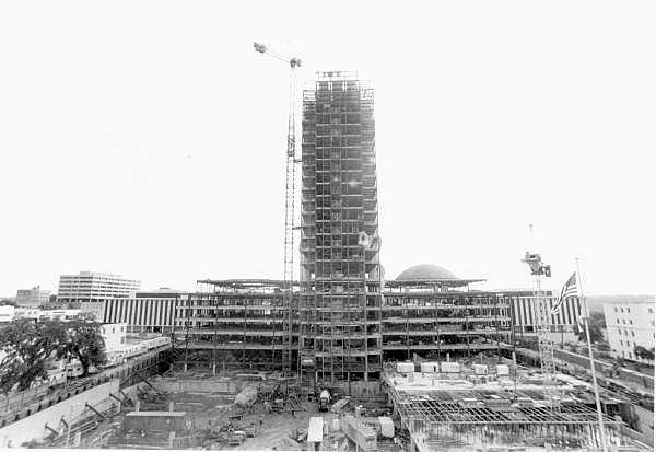 Local call number: Rc22400 Title: [Looking east at Florida's new Capitol building under construction : Tallahassee, Florida] [picture] Publication info: 1975. Physical descrip: 1 photoprint : b&w ; 7 x 10 in. Series Title: (Reference collection)